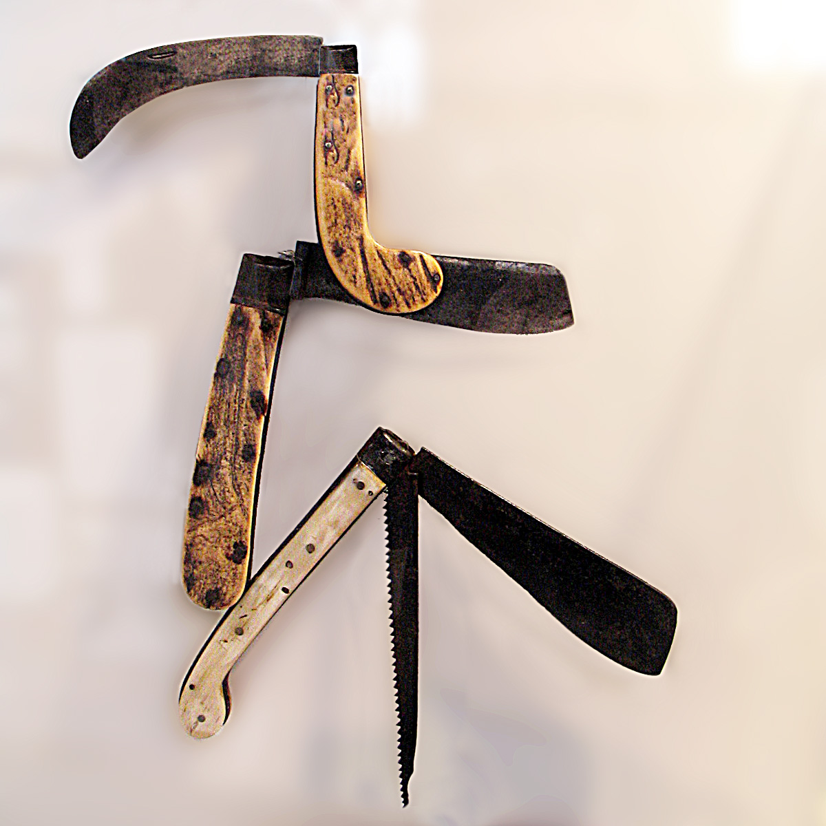 Grafting knives, Museum of Garden History, Lambeth, London